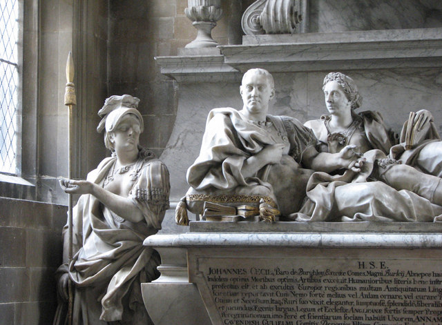 Stamford: St Martin - tomb of the Earl of Exeter, d. 1700 John Cecil, 5th Earl of Exeter, and, according to Pevsner, "by Monnot, Rome 1703. Large, competent, and confident".